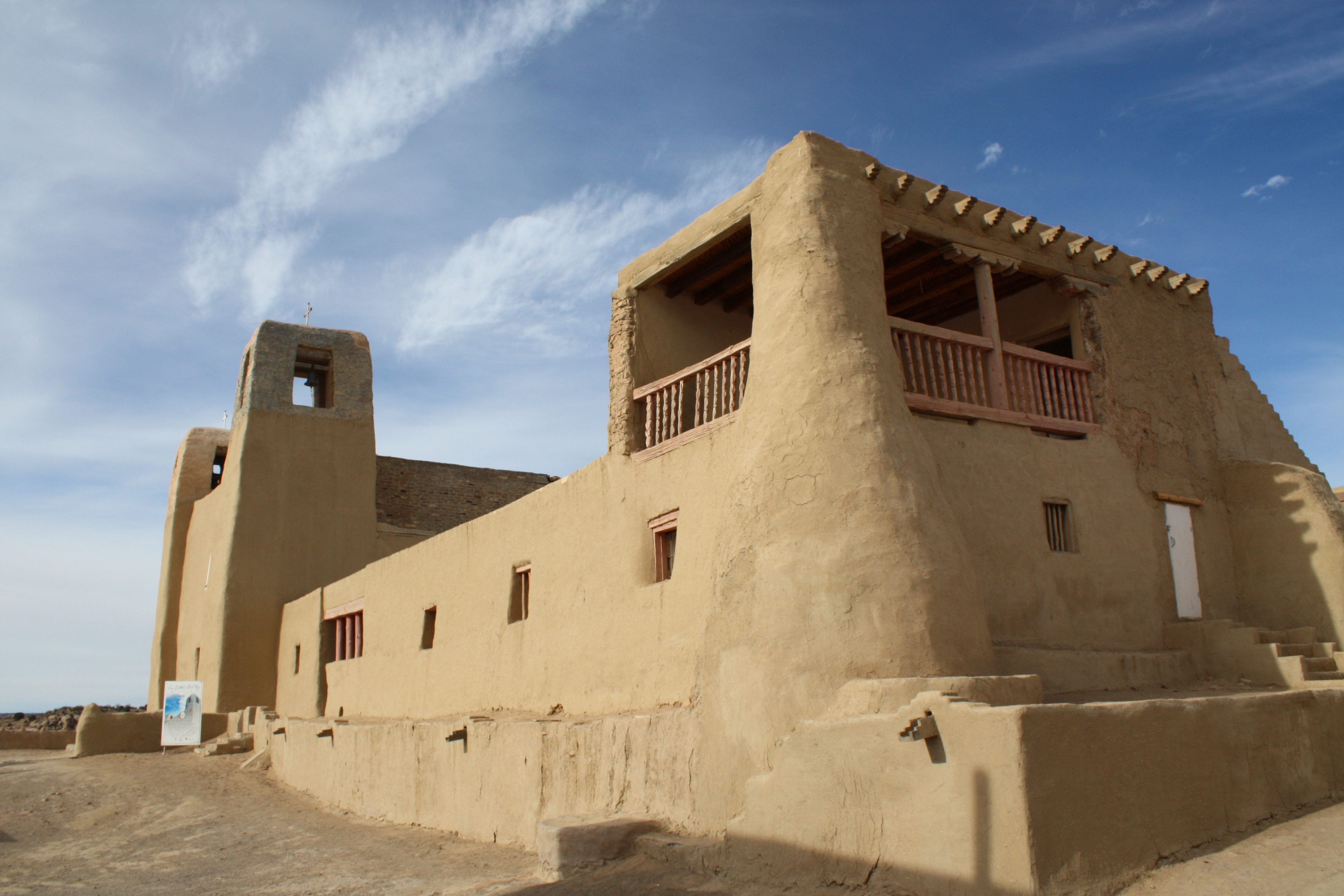 The mission church of San Esteban Rey at Acoma Pueblo.